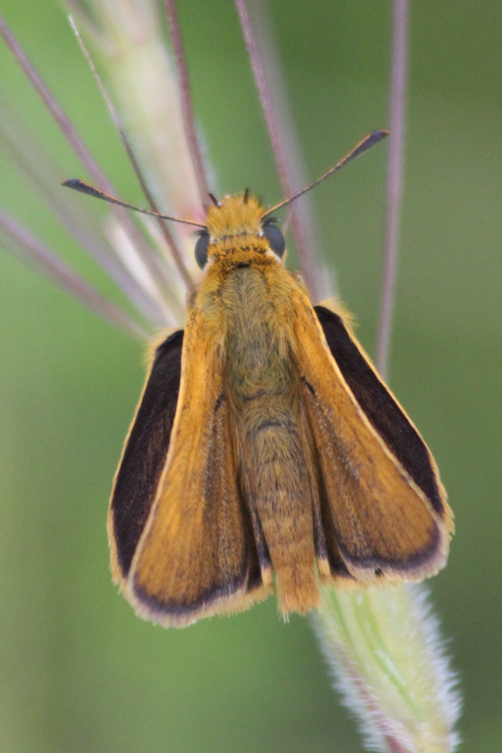 A record shot. Despite being dismissed as "Europe's most boring butterfly", I was still excited to get a lifer.